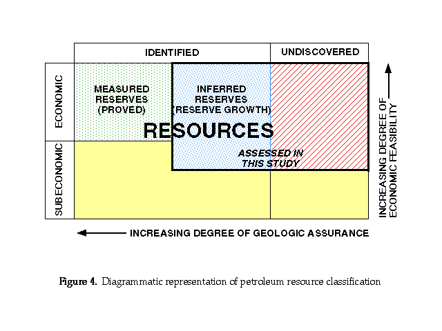 A "McKelvey box," designed by former USGS director Vincent McKelvey to illustrate different classes of mineral resources.